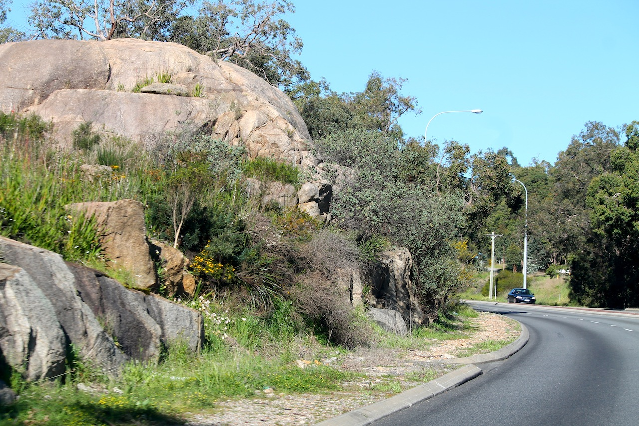 Great Eastern Highway Greenmount September 2012 - compare with File:Western_Approach_to_Chippers_Leap.JPG